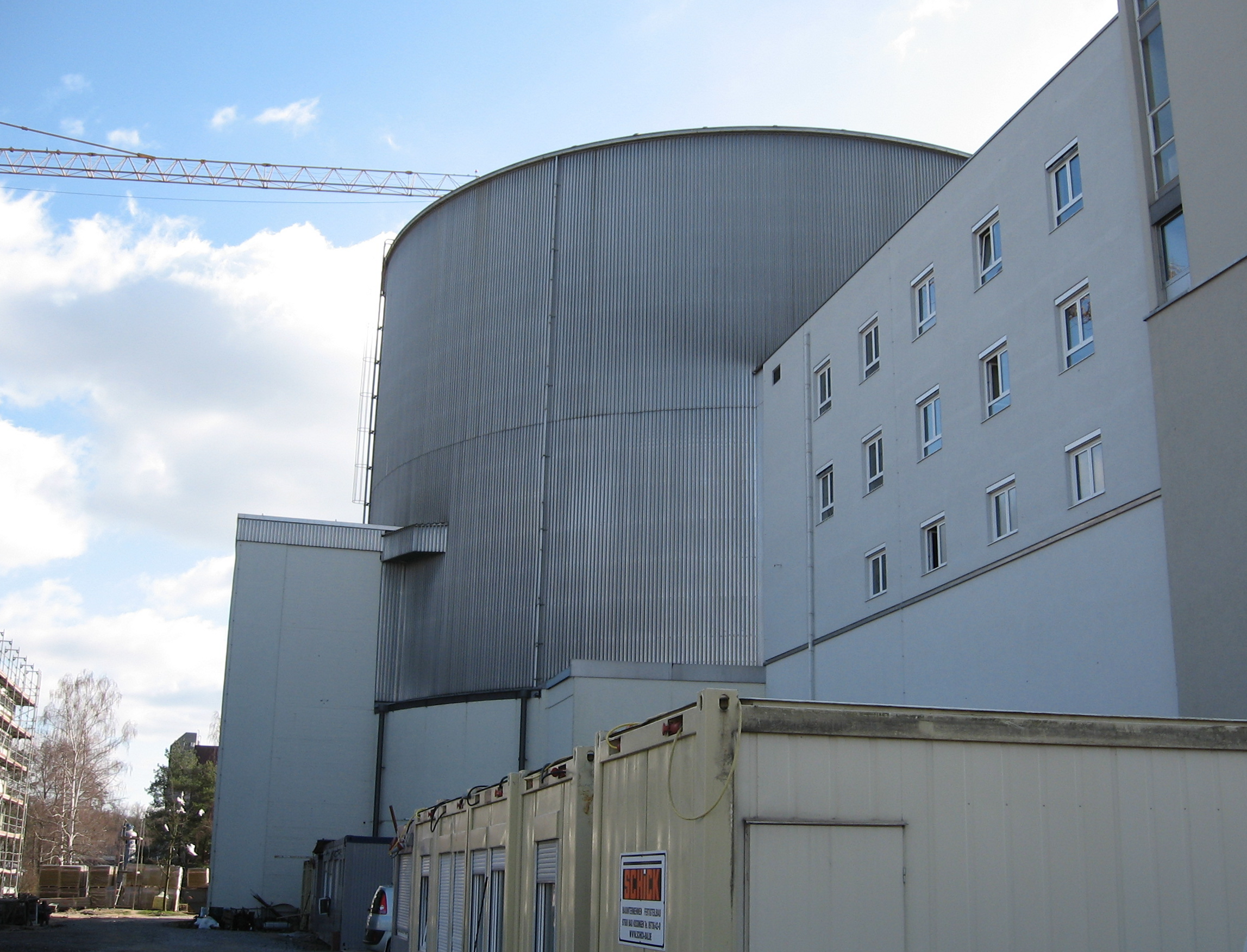 Former research reactor FR-2 at Forschungszentrum Karlsruhe (now part of Karlsruher Institut für Technologie, a German science center, member of the Helmholtz-Gemeinschaft.